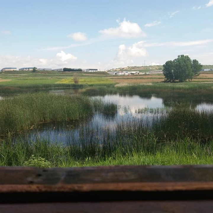 Wetland in Miranda de Ebro, Spain